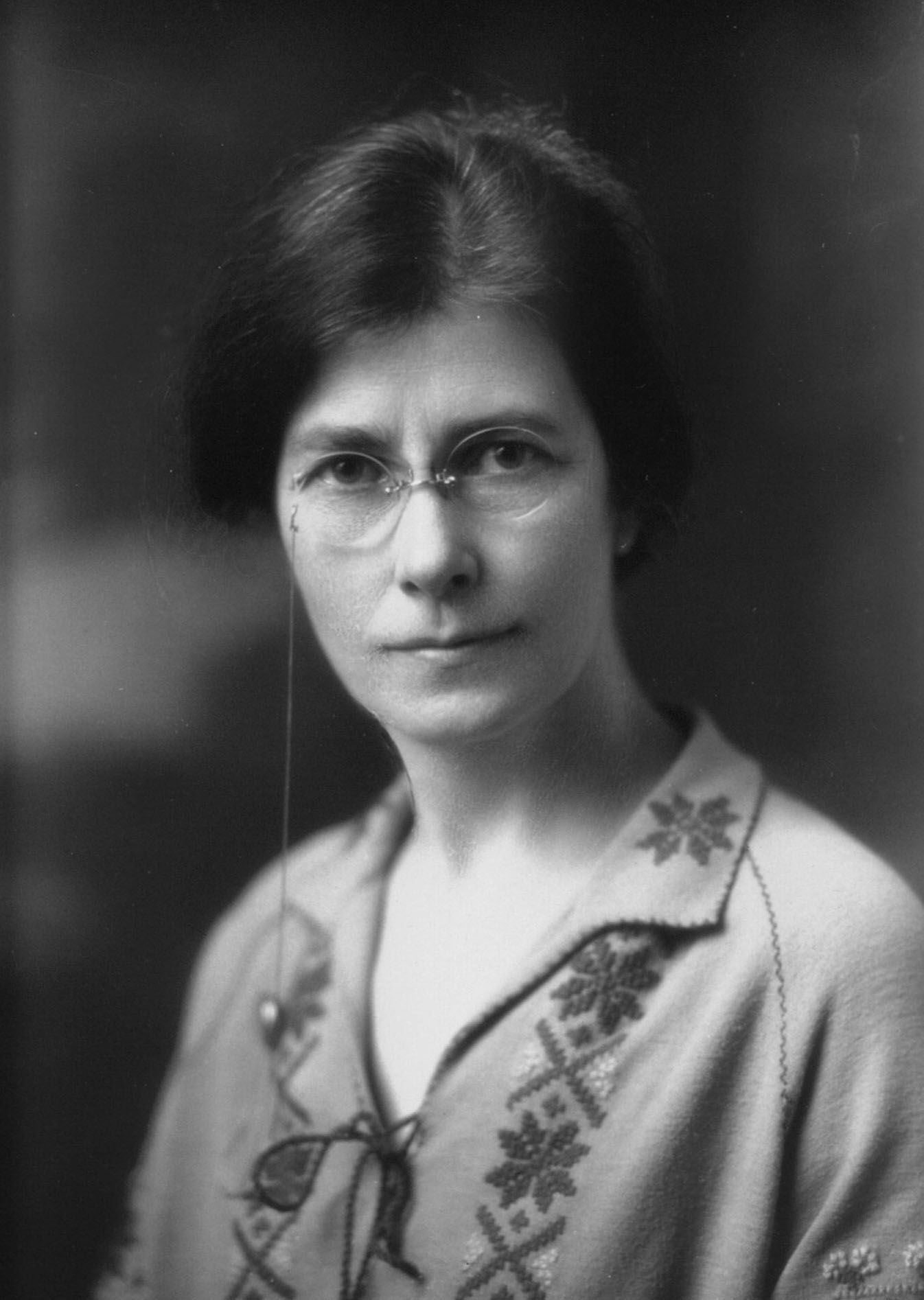 Formal portrait, head and chest, Clara Snell Wolfe, facing forward, wearing eyeglasses and v-neck dress with wide bands of embroidery .